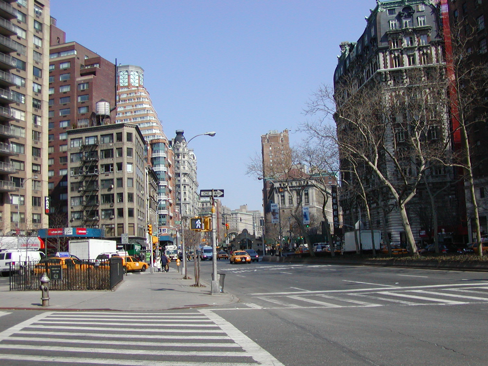 Broadway at the intersection with Amsterdam Avenue in the Ansonia neighborhood of Upper West Side. The NRHP Ansonia Hotel is seen in the distance, left of center. See also File:Theansoniajeh.JPG. German Savings Bank, now Apple Savings Bank, is closer and right of center; The Dorilton on the right. Photograph by Leena Hietanen March 2005. (Uploaded with permission.) Category:Photographs by User:Petri Krohn